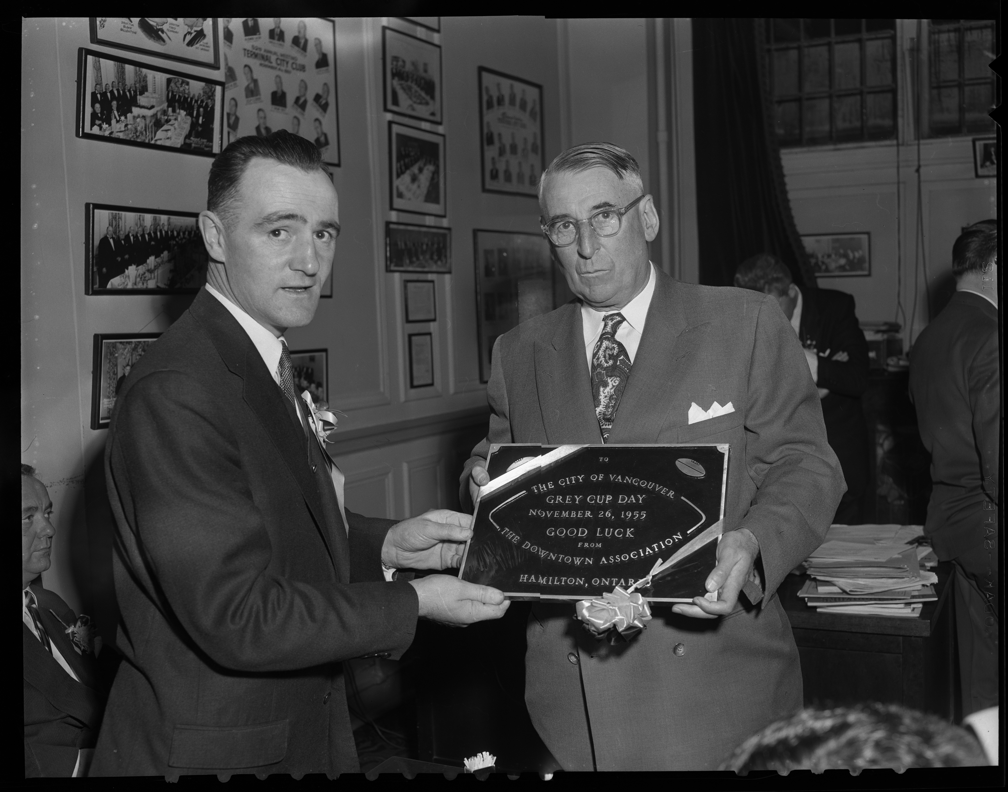 Mayor Fred Hume accepts Grey Cup Day plaque from Vic Copps, Downtown Association of Hamilton, Ontario, at the Terminal City Club VPL Accession Number: 82928 Date: 1955 Photographer/Studio: DeWitt, Eric More information on our historical photograph collection